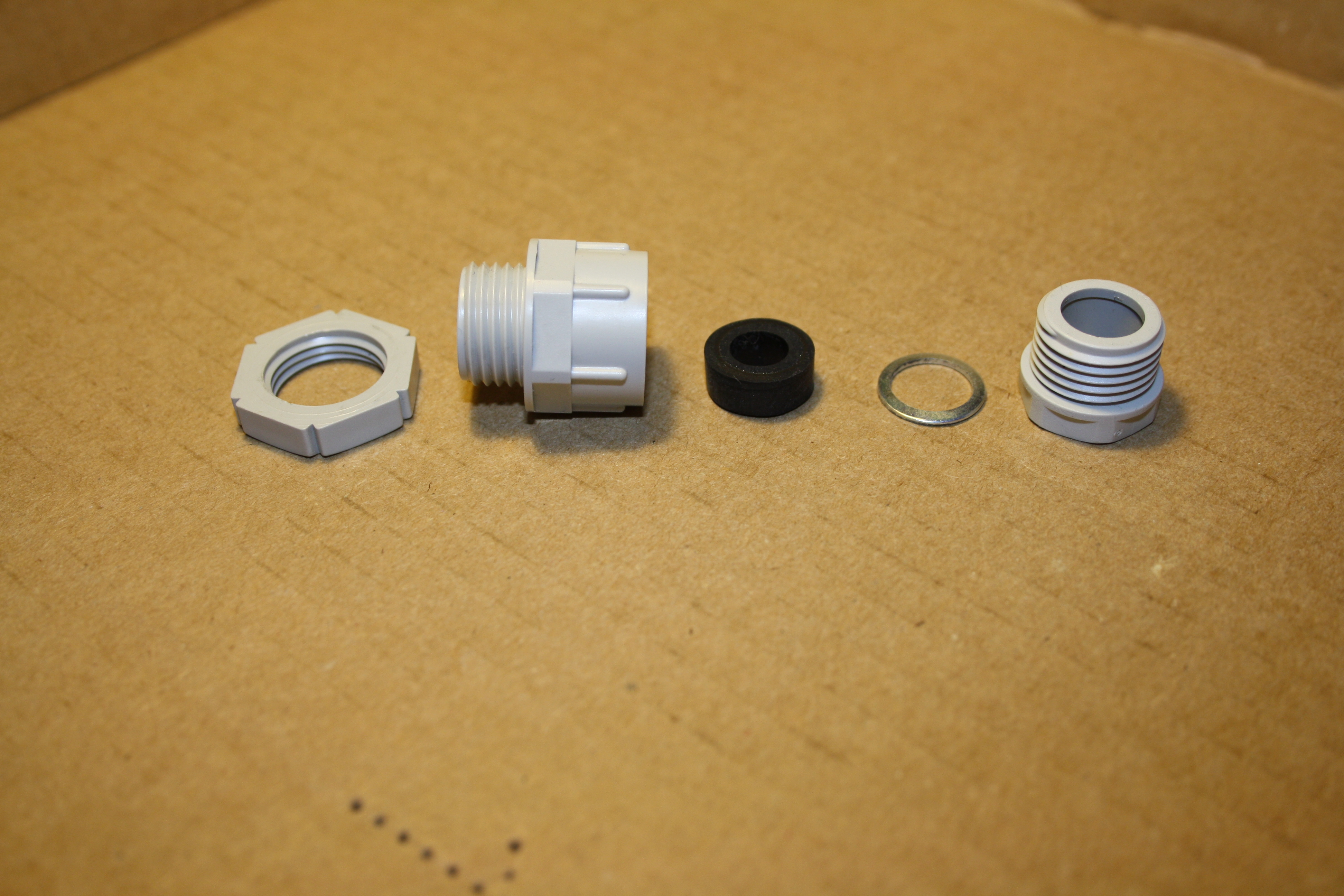 Plastic cable gland, disassembled